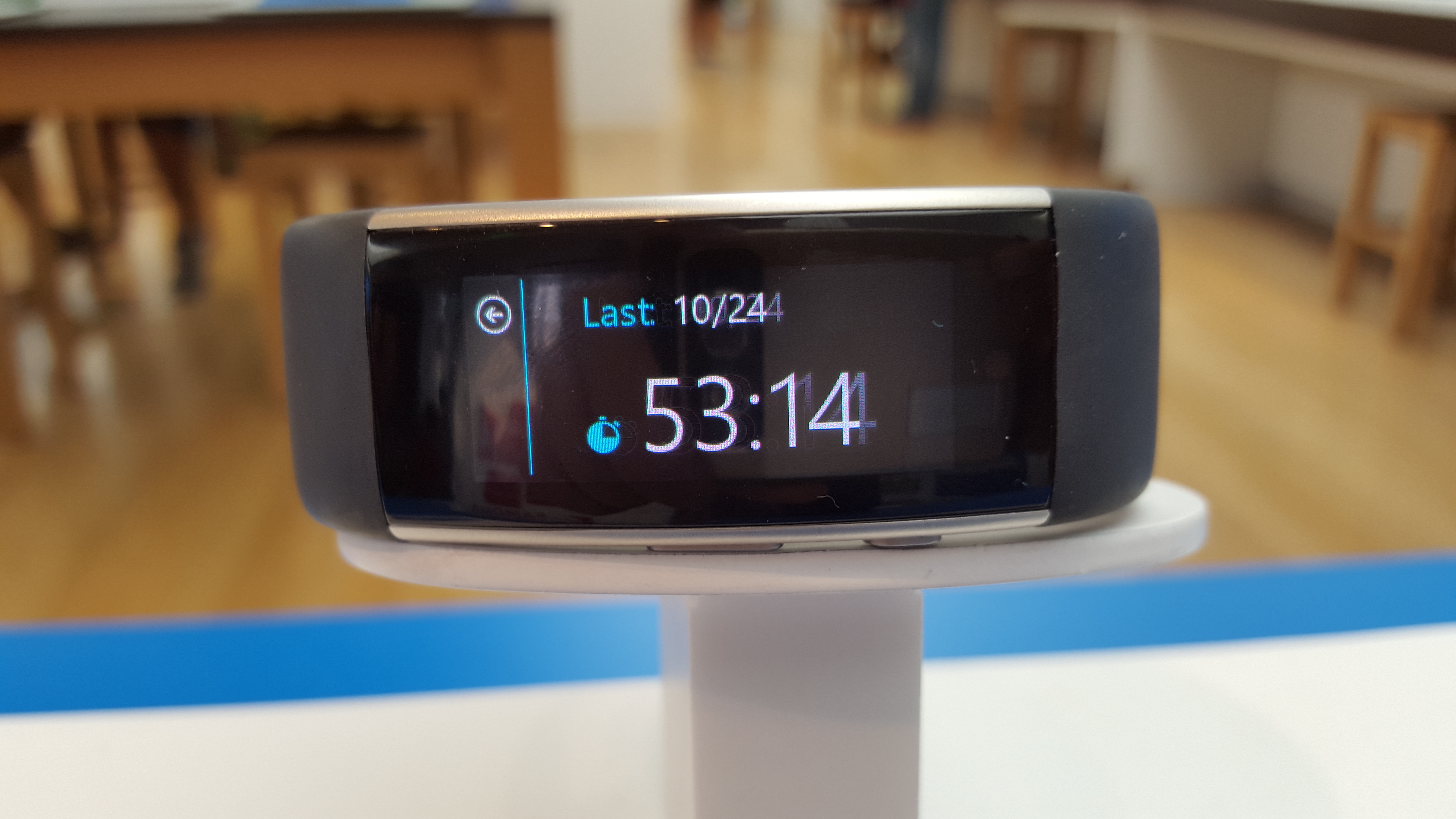 Microsoft Band 2 at Ala Moana store